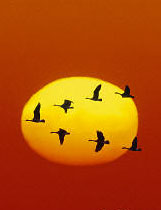 Canada Geese in V formation